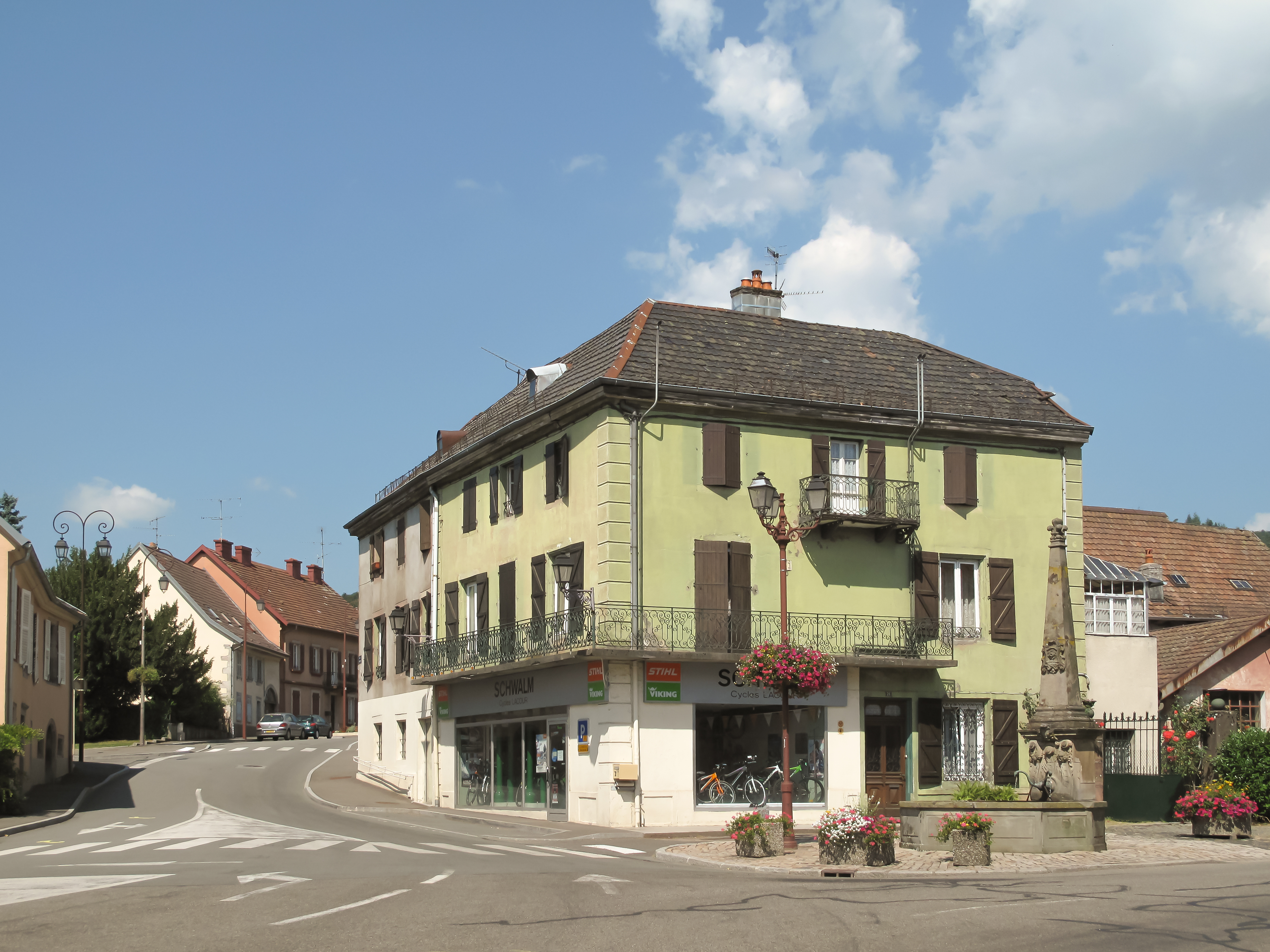 Giromagny, monument commémoratif de la réunion de l'Alsace à la France en 1648 PA00101151 in the street